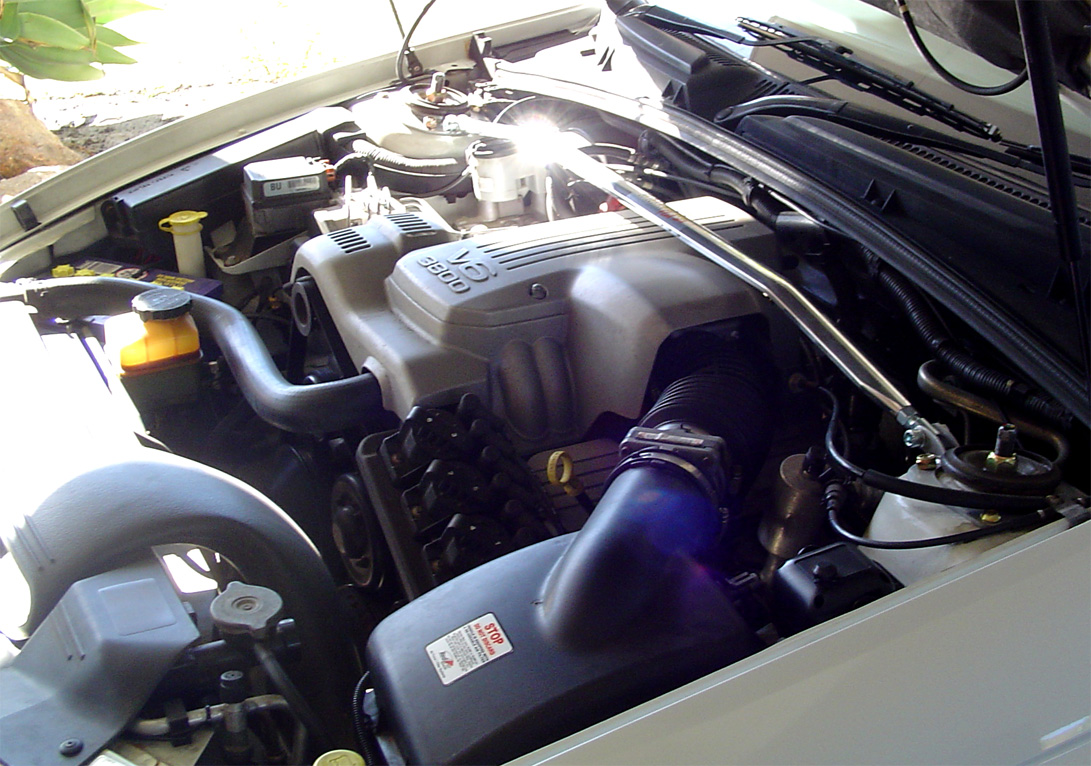 3.8 litre L36 V6 engine (Ecotec V6) of a Holden VT Commodore.